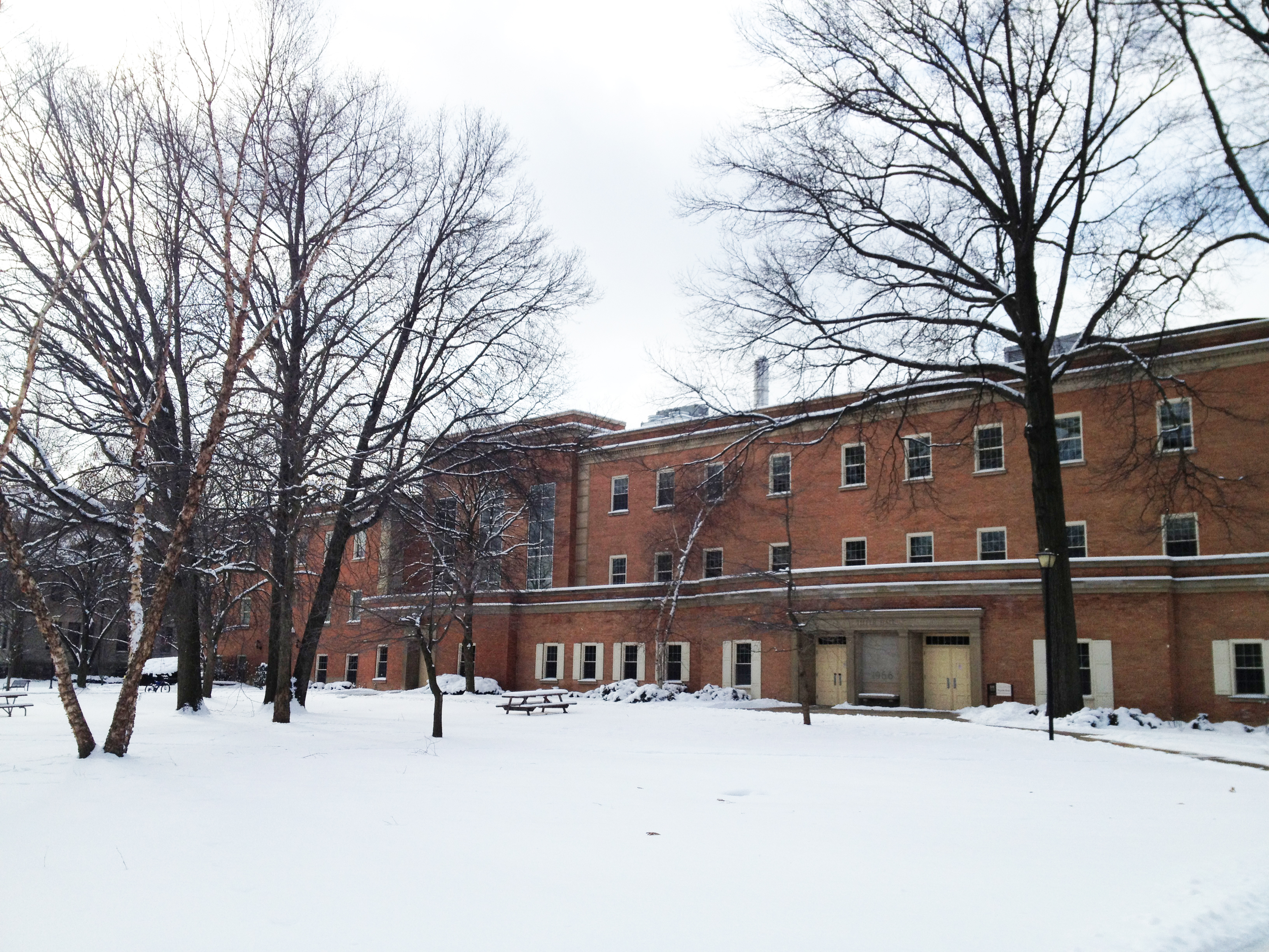 Wilker,Tefler Hall on Baldwin Wallace University North Campus